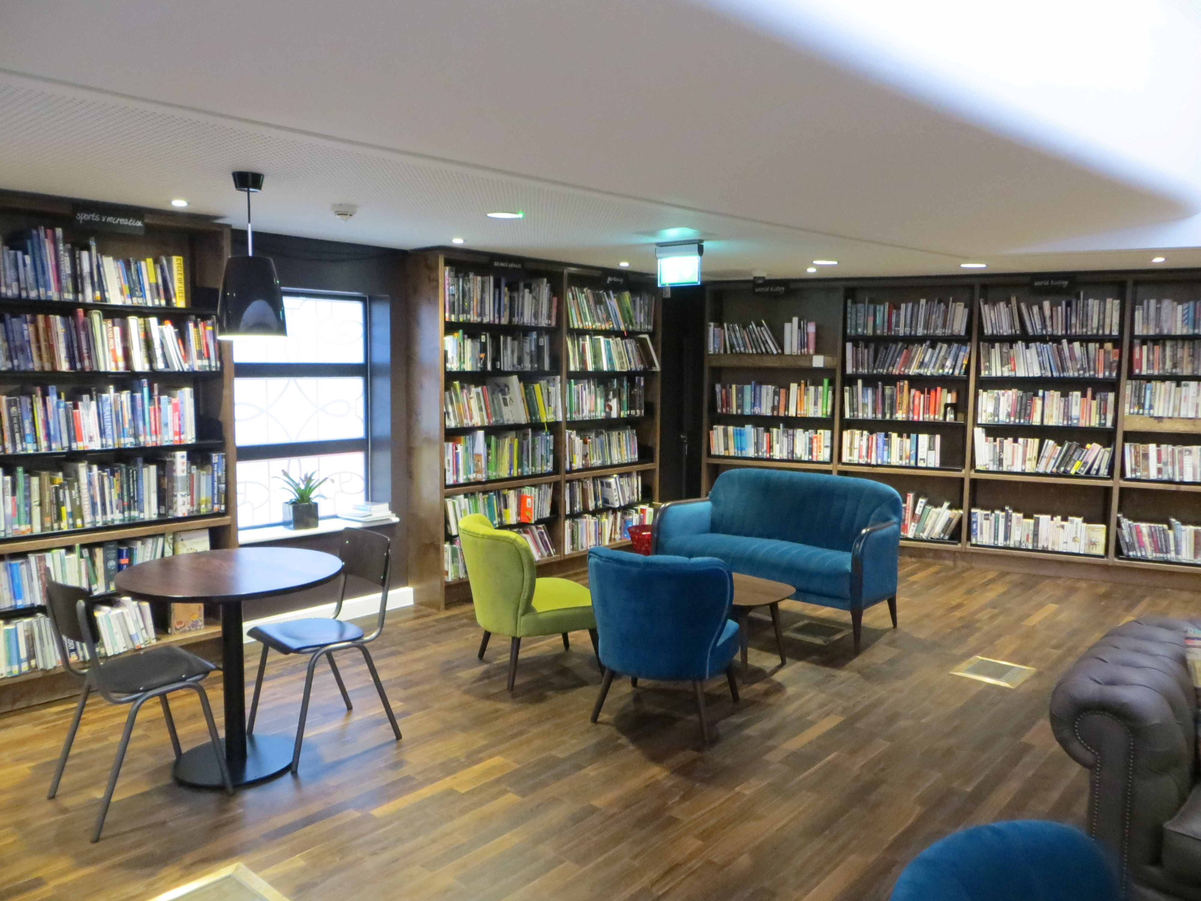 Interior of the new library and public spaces in Chester's Storyhouse.